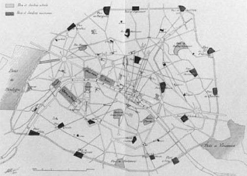 Plan from Eugène Hénard's 1903 Études sur les transformations de Paris that discussed creating new parks (dark shading). Existing parks are shown with light shading.